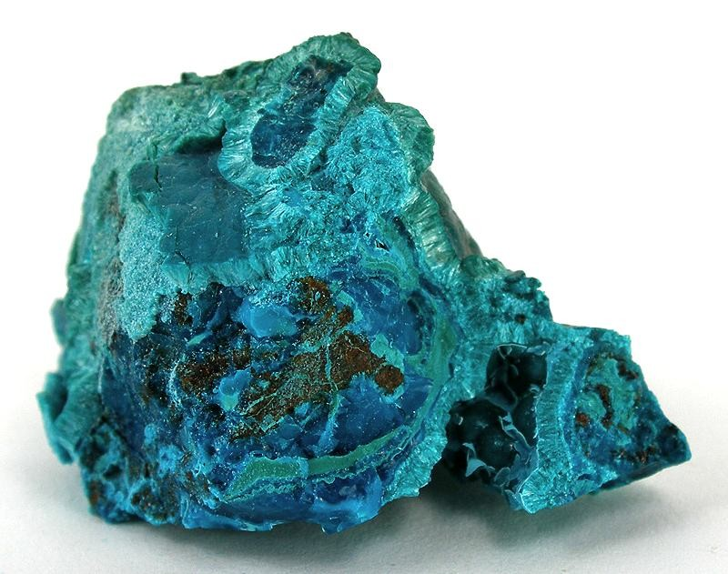 Chrysocolla, Tyrolite, Clinotyrolite Locality: San Simon Mine, Santa Rosa-Huantajaya District, Iquique Province, Tarapacá Region, Chile (Locality at ) Size: 4.0 x 2.6 x 2.6 cm. Ths specimen was presented to the academy by the famed Dr. Domeyko in the late 1800s, who did much work on the rare minerals of Chile and Argentina. Regardless of the chemistry, the specimen has merit as a display piece of beautiful copper combinations from Chile. This piece has beautiful, powder-blue chrysocolla forming as stalactitic growths and as a thin carpet in the few hollow vugs inside a literal boulder of nearly solid tyrolite. On analysis by modern equipment, the matrix material shows to be tyrolite, clinotyrolite, and possibly other related species admixed (XRAY and powder, Bart Cannon's lab, 2008). However, apparently the official mineralogy of tyrolite classification is confusing and has changed over time. Clinotyrolite is often considered a species by many people, though without IMA approval. I quote MINDAT's page on the matter verbatim to make sure I do not mistakenly convey the science: Since it is well-known that also carbonate-free varieties of tyrolite exist, "tyrolite" may actually represent two or more minerals/polytypes. At least two monoclinic polytypes of tyrolite are known (Krivovichev et al., 2006); one of them seems to be identical to "clinotyrolite". Note that this is the first report of the locality to MINDAT for tyrolite occurence, but it is likely that this rare species is present on other old specimens of "chrysocolla" from Chile. Ex. Academy of Natural Sciences Philadelphia Collection.